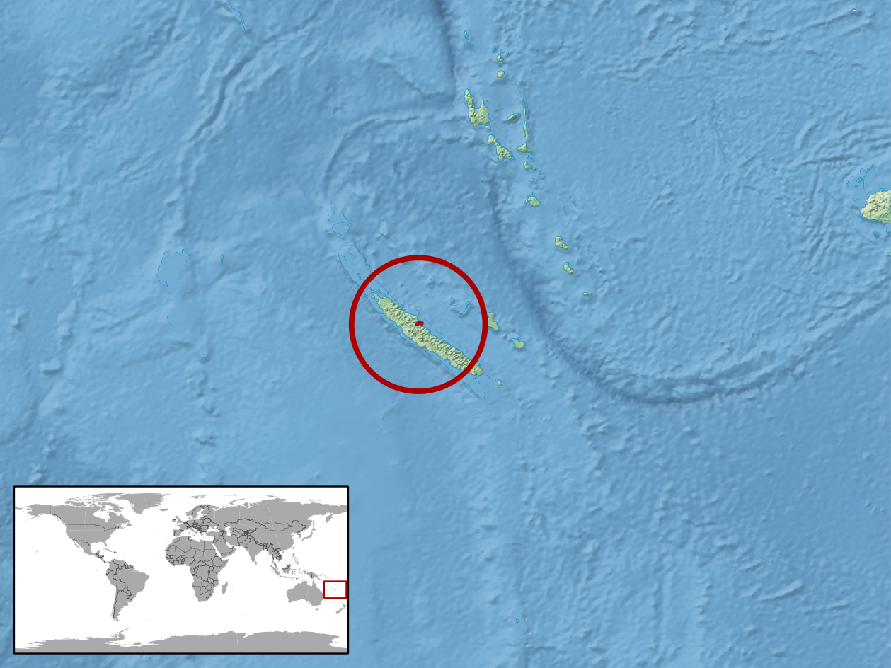 geographic distribution of Nannoscincus greeri